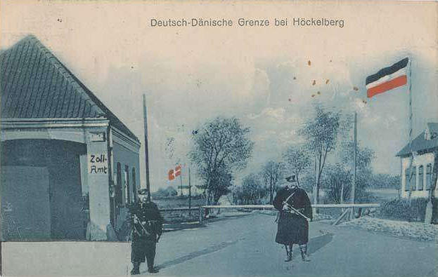 The danish-german border at Hoekkelbjerg north of Christiansfeld before 1920. The flag from Schleswig-Holstein is used.